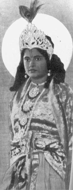 A scene from Sathi Murali